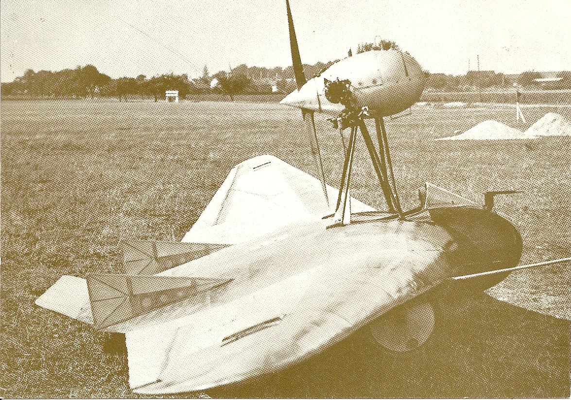 C.H. Chauvet's 1933 flying wing at Guyancourt